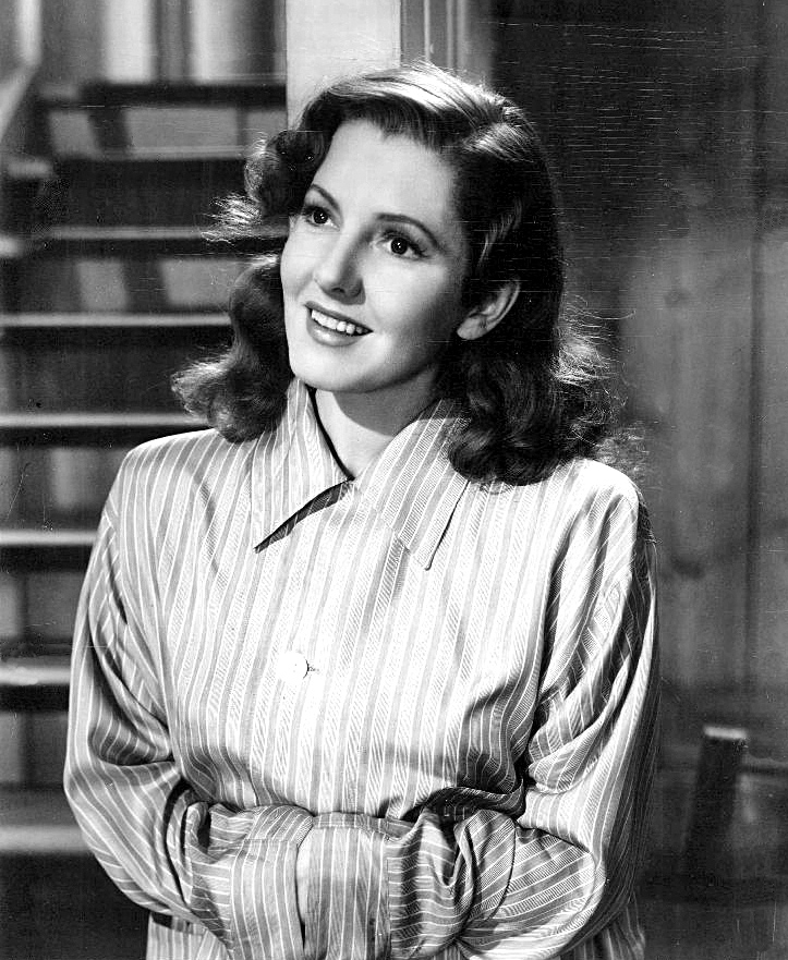 publicity photo of Jean Arthur for film The Talk Of The Town.